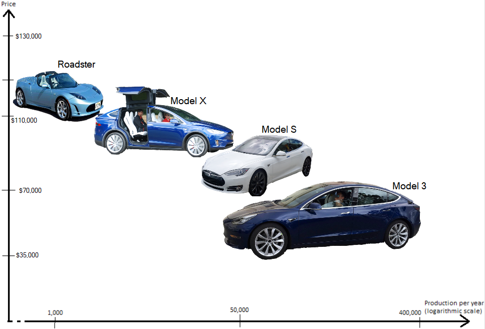 Diagram of cars made by Tesla, showing vague areas for price range and annual production level. Roadster 2009-2012, $110-150,000 , 1,000 cars per year. Model S 2012- , $70-130,000, 50,000 cars per year. Model X 2016- , $80-140,000, 40,000 cars per year. Model 3 2017- , $35-70,000, possibly 300,000 cars per year. Builds upon Not to scale, and aspect ratio may be incorrect. Vertical axis is linear and grounded, horizontal axis is logarithmic. Suggestions: upload cleaner crops, scale to size, add production years, polygon for more precise price/volume area.